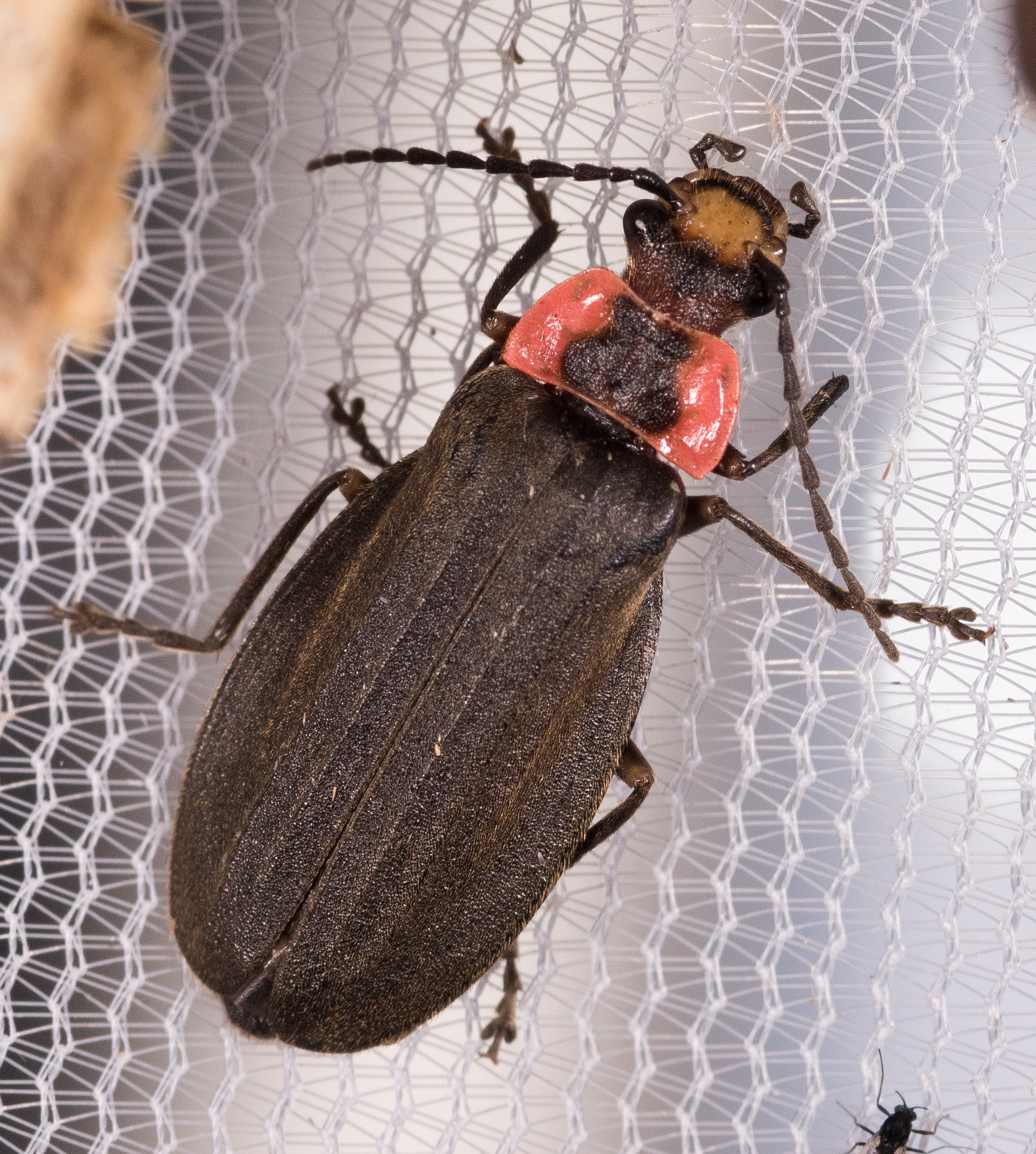 (Podabrus tricostatus) Pleasant Walk Road, Frederick County, Maryland. June 11, 2016.